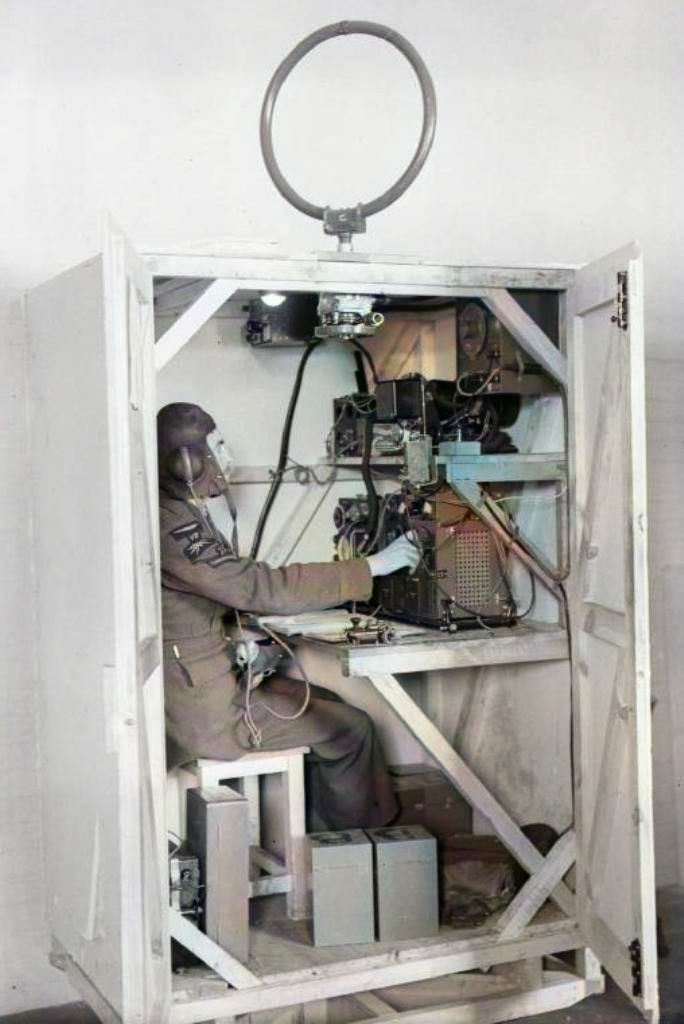 Royal Air Force Bomber Command, 1939-1941. A wireless operator works his T1083/R1082 transmitter/receiver set, sitting in a wooden mock-up of a wireless-operator's position in an Armstrong Whitworth Whitley, at No. 10 Operational Training Unit, Abingdon, Berkshire. His set is connected to a direction finding (D/F) loop aerial on top of the compartment.